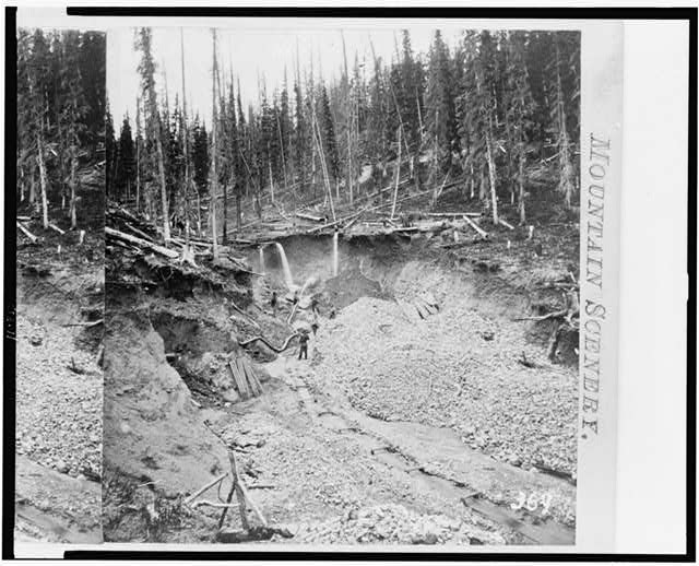 Title: [Hydraulic mining, California gulch, Colorado] Creator(s): Chamberlain, W. G. (William Gunnison), photographer Date Created/Published: [Denver, Colorado : photographed and published by W.G. Chamberlain, c1878] Medium: 1 photographic print on stereo card : stereograph. Reproduction Number: LC-USZ62-110833 (b&w film copy neg. of half stereo) Rights Advisory: No known restrictions on publication. Call Number: LOT 11975 [P&P] Notes: No. 369.